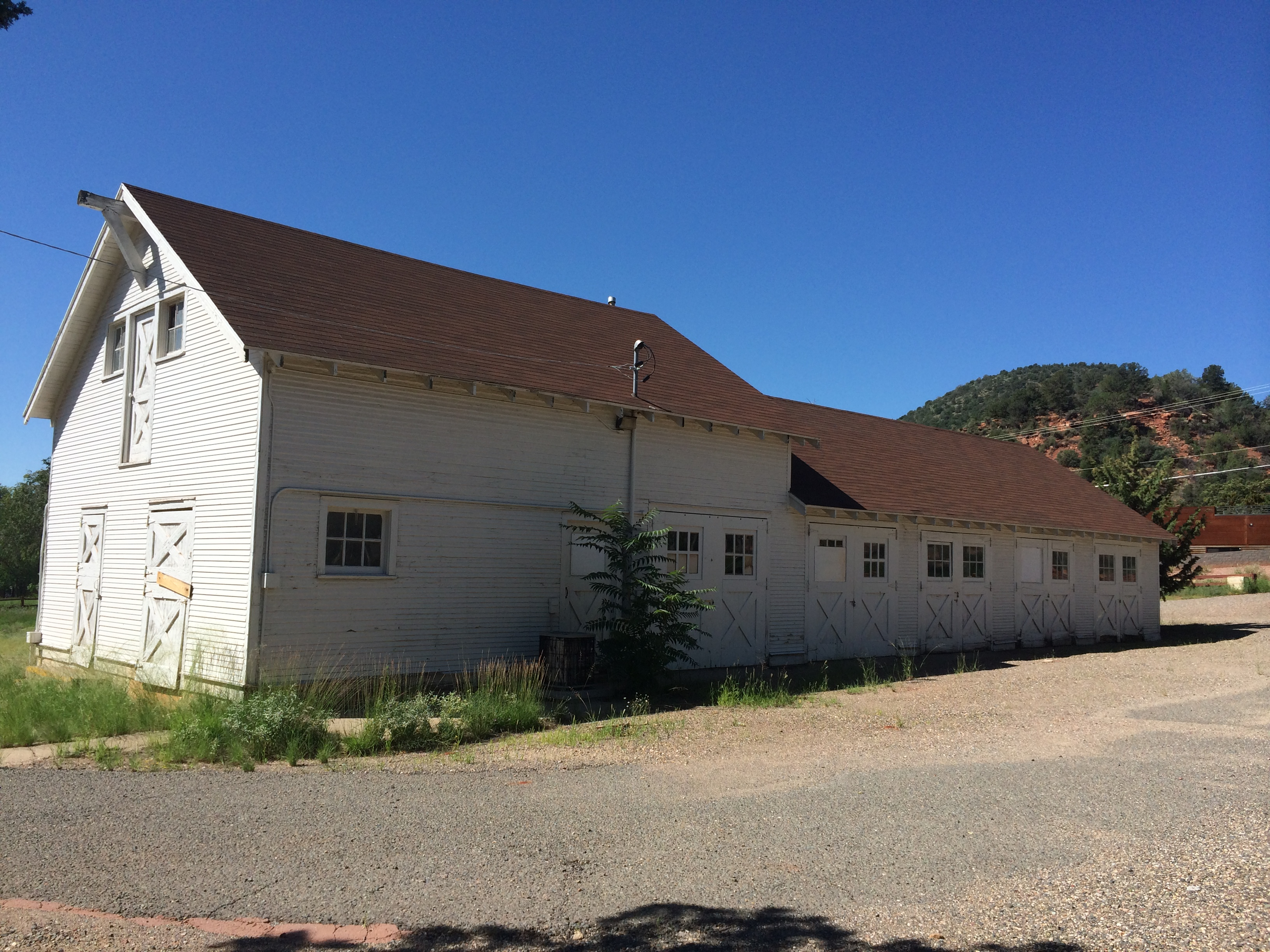 Sedona Ranger Station, Brewer Road, south of Hart Road Sedona